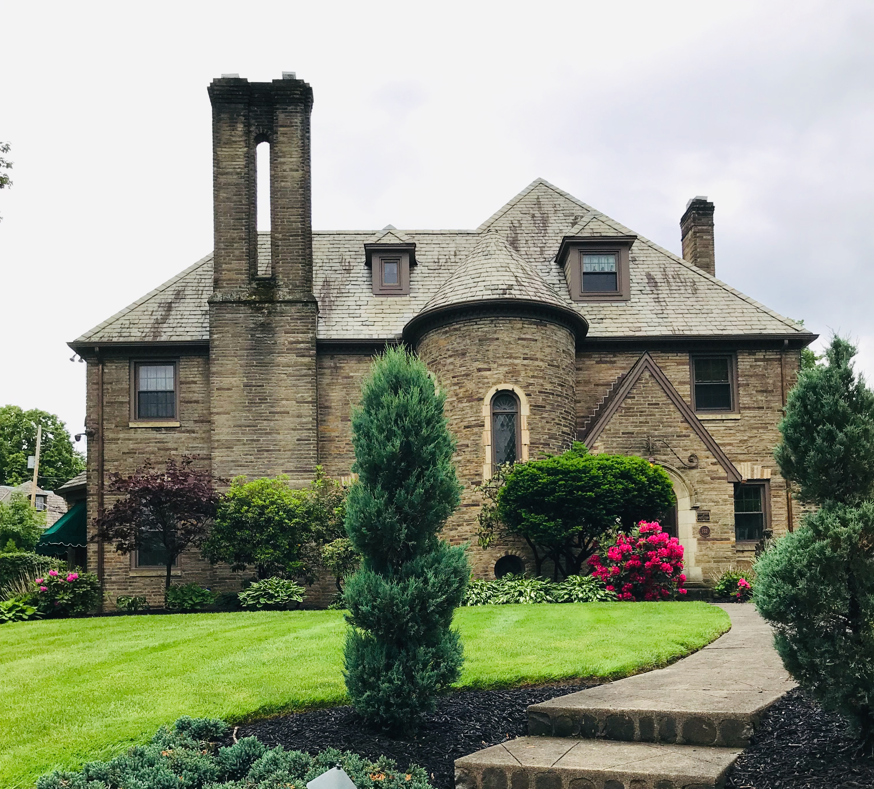 Obermeier House in Ridgewood, Canton, Ohio